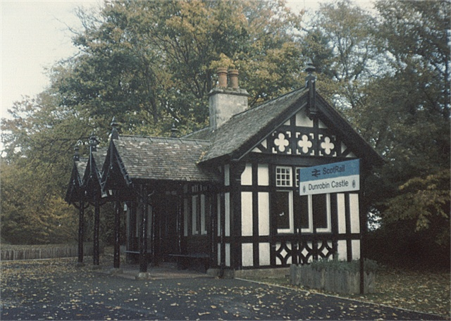 Dunrobin Castle railway station